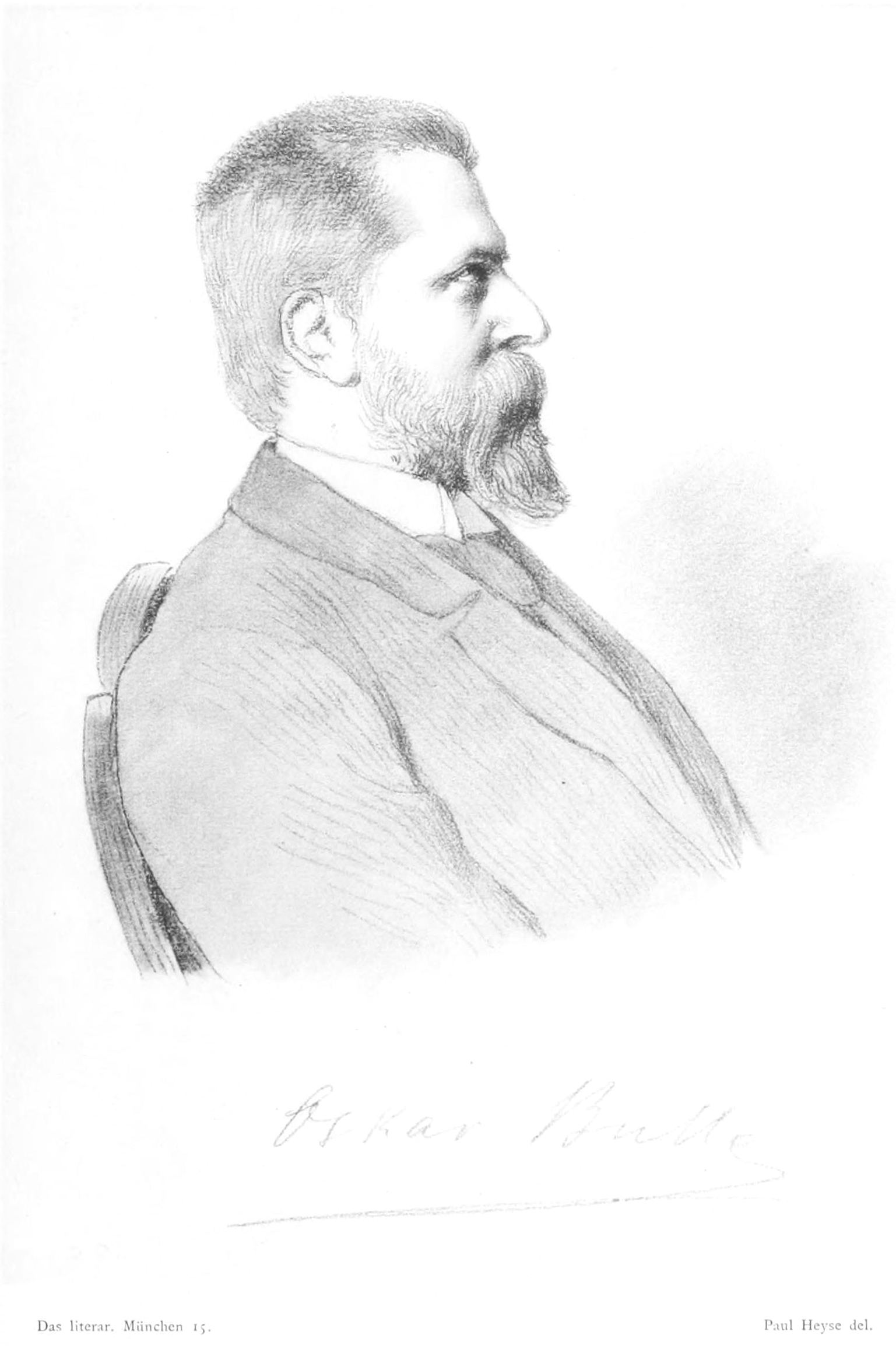 Oskar Bulle (1857–1917)